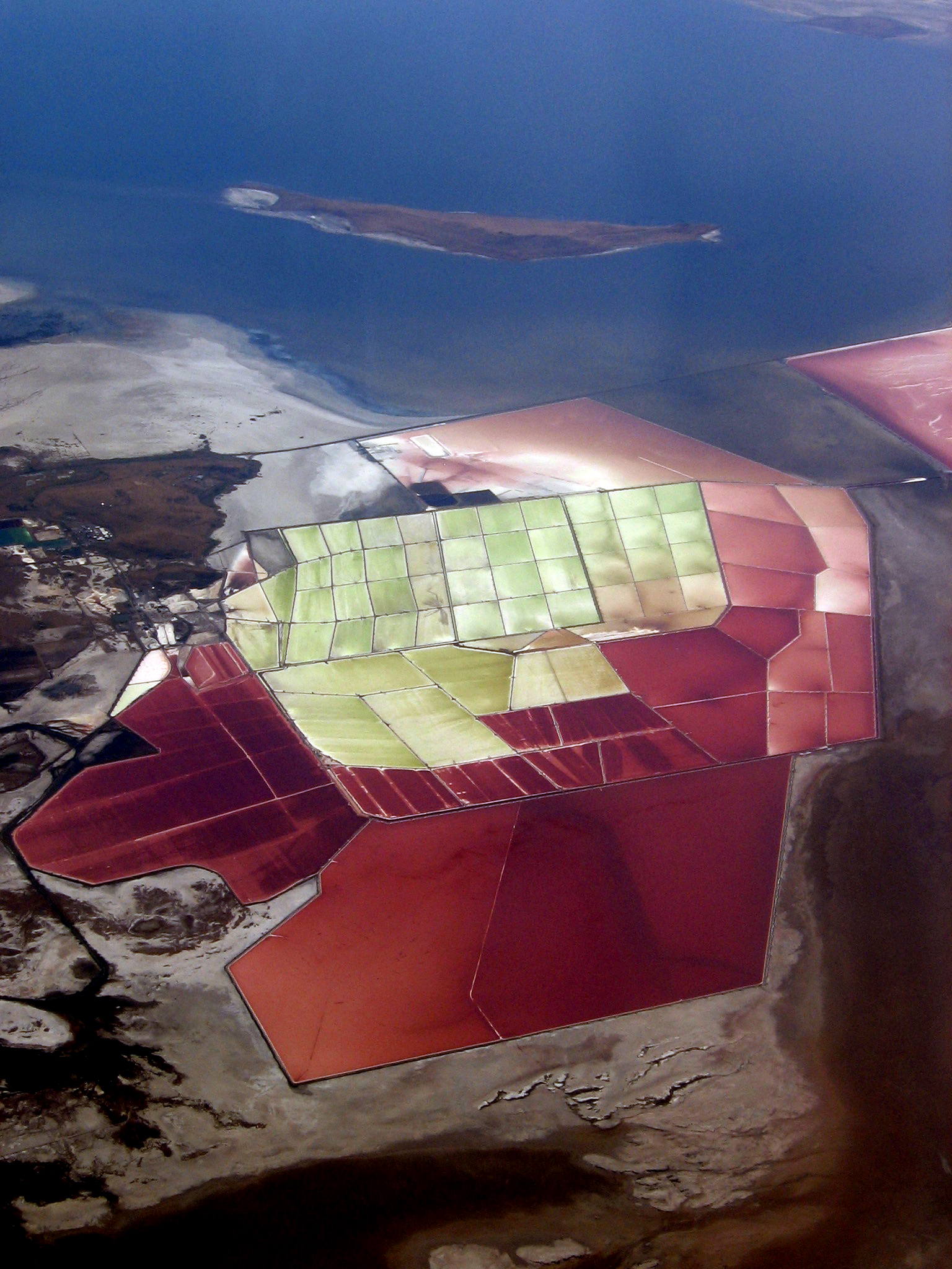 Evaporation ponds on the Great Salt Lake west of Ogden, Utah, USA. This photo was taken in July 2006.